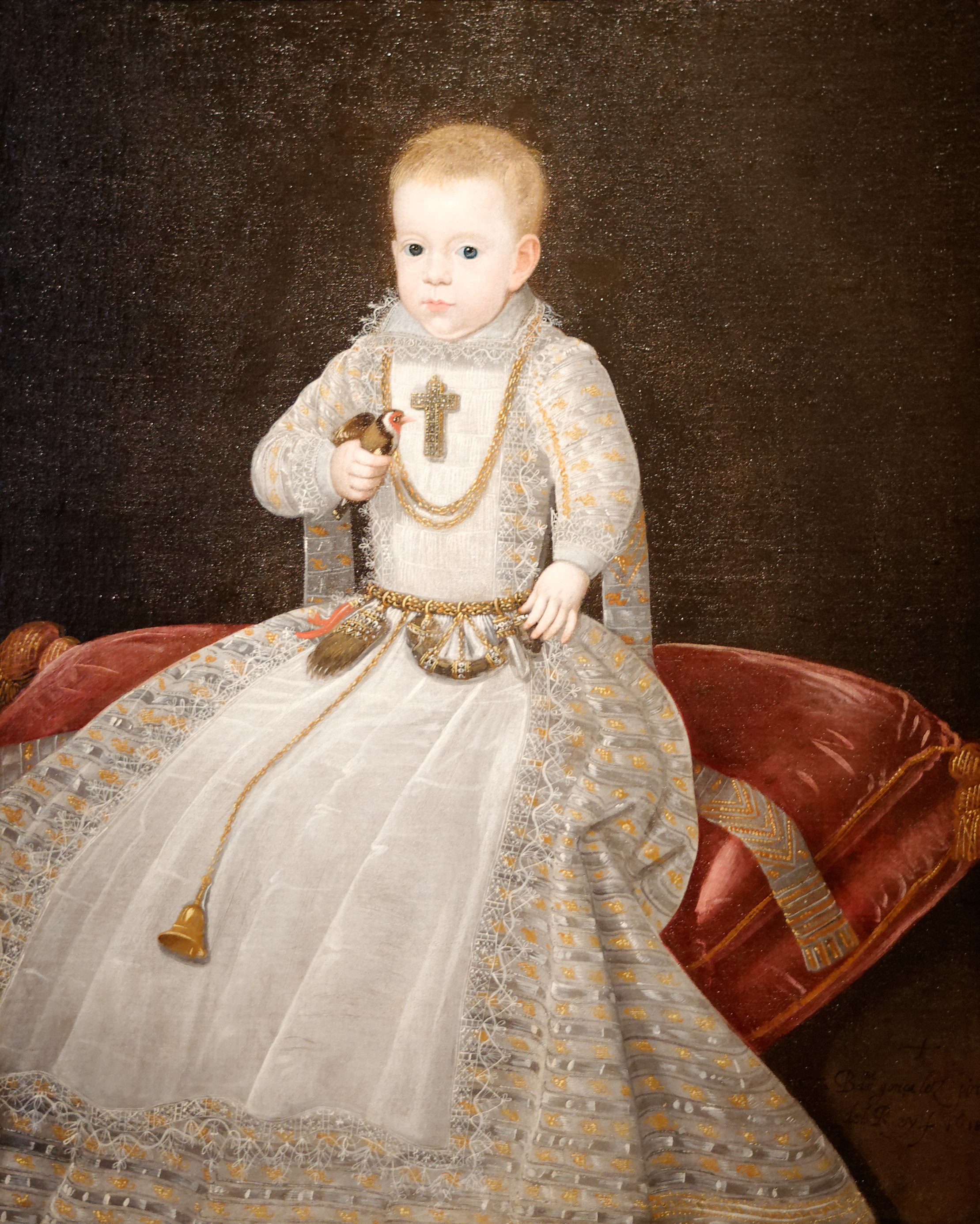 Portrait of the Infante Don Fernando de Austria